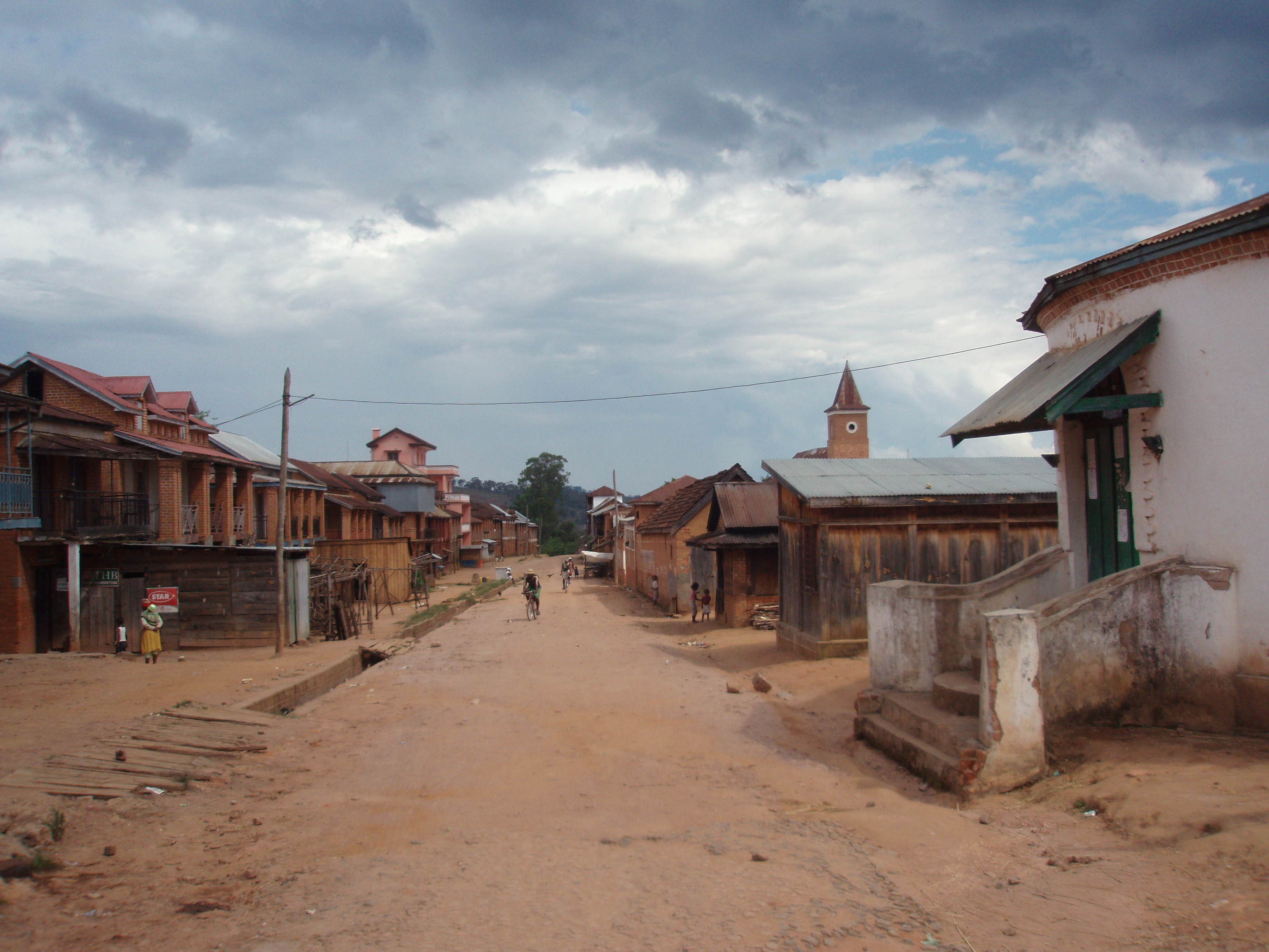 Main street in Miarinavaratra, view in eastern direction